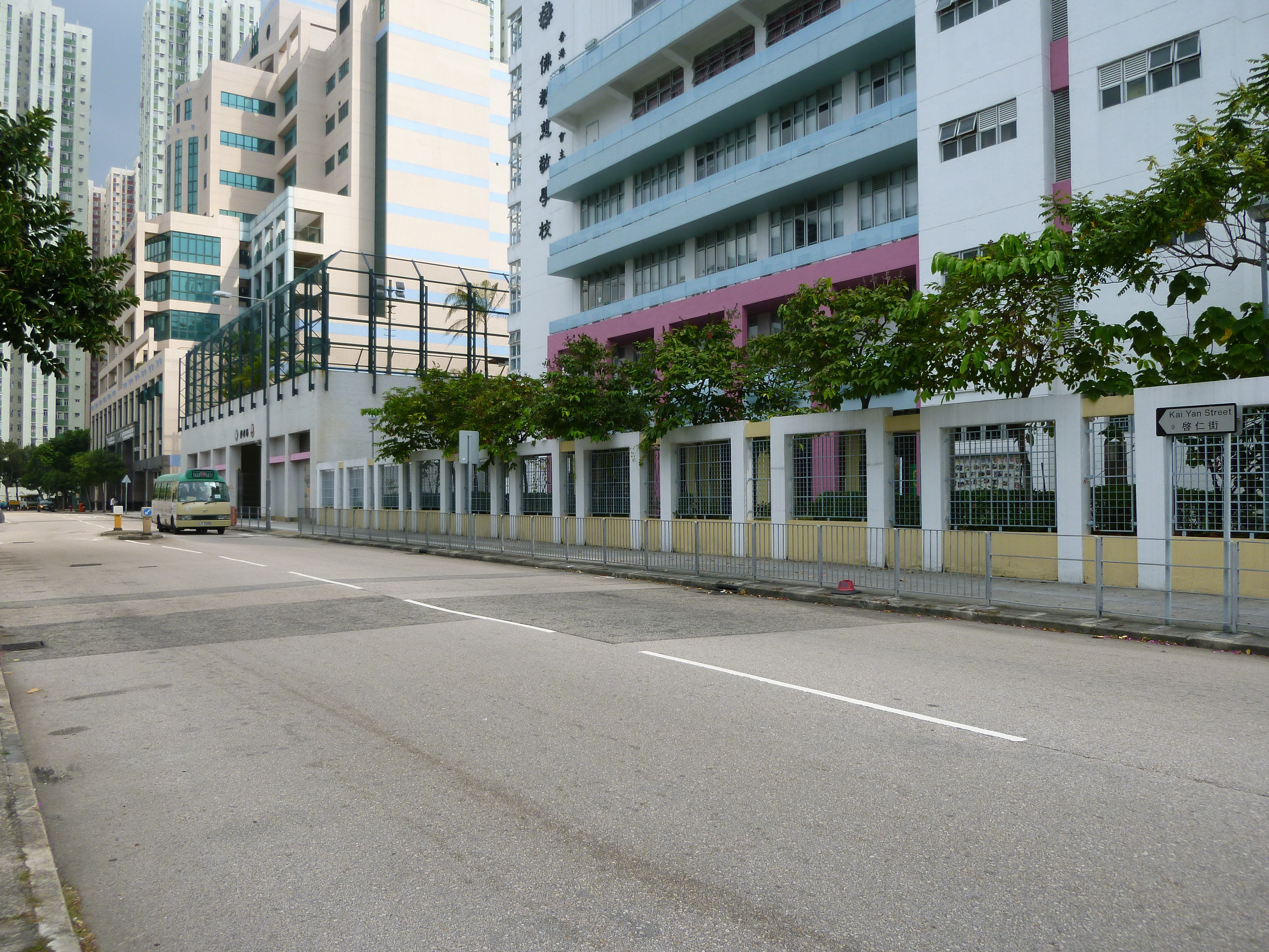 Kai Yan Street (Kowloon Bay, Kowloon, Hong Kong) 中文（香港）: 啟仁街 (香港九龍九龍灣)